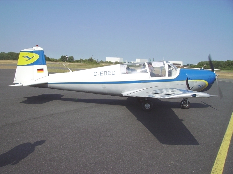 A Saab 91B Safir, a former training plane of the Lufthansa, is taxiing to the runway